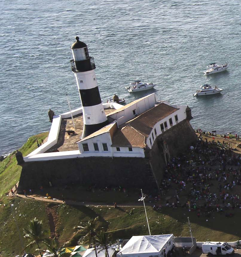 Aereal view of Santo Antônio Fortress in Salvador, Bahia, Brazil